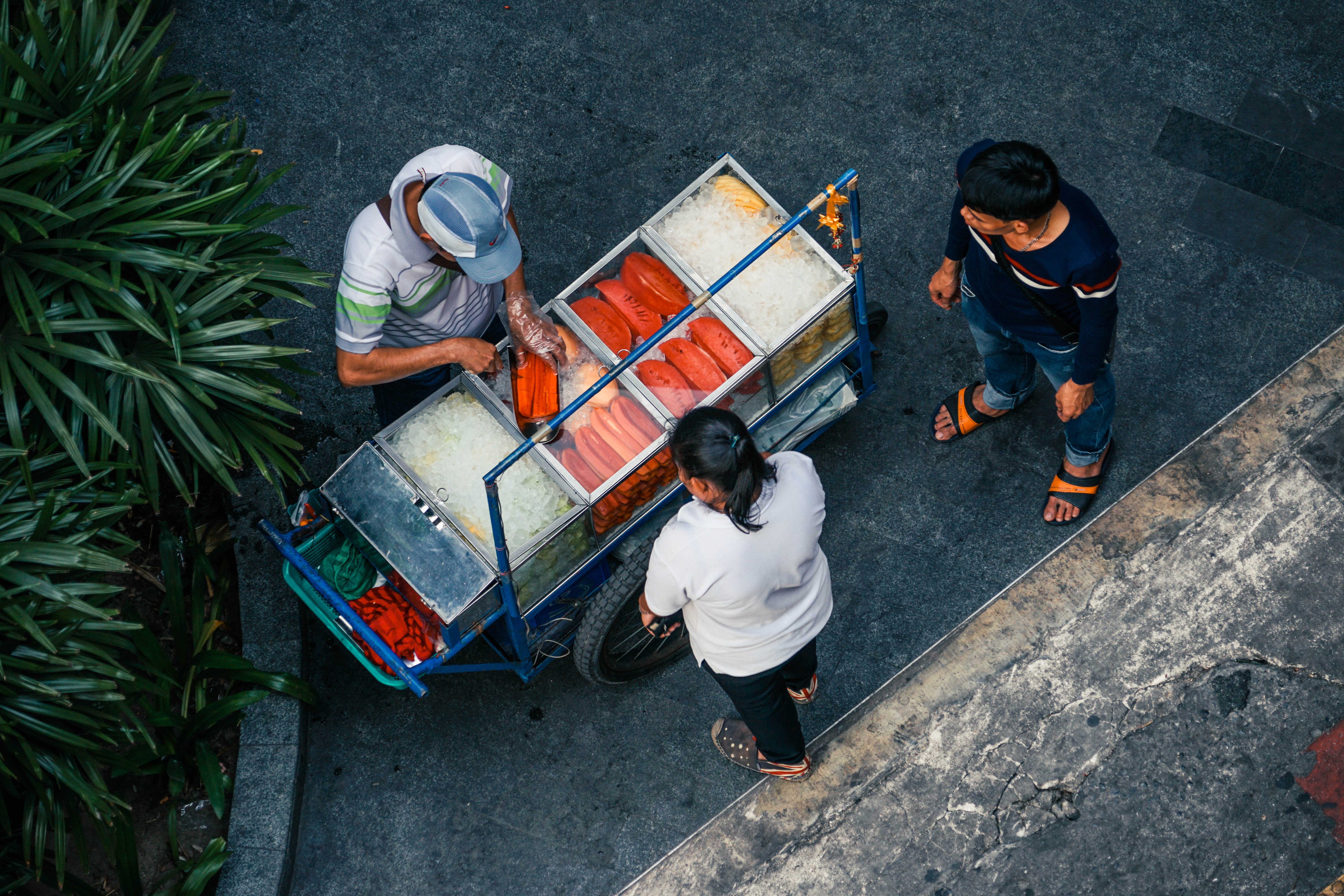 Surasak BTS Station, Bangkok, Thailand